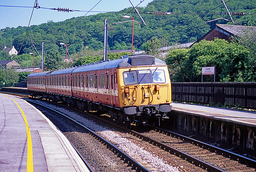 AM8 BR class 308/1 308143, consisting of vehicles 75897+61893+75930, in West Yorkshire PTE livery on a Skipton service at Keighley in 1996. Scanned from a Kodachrome 35mm slide.